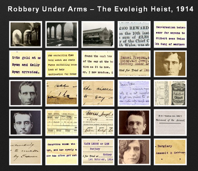 Screenshot of the latest gallery: Robbery Under Arms: The Eveleigh Payroll Heist, 1914 The Eveleigh payroll robbery took place on the 10 June 1914. What makes this crime unique is not only the fact that it was committed in the middle of the day in a busy area but it has been reported to be the first robbery in Australia where a get away car was used. Visit the Gallery Rights: We'd love to hear from you if you use our photos/documents. Many other photos in our collection are available to view and browse on our website using Photo Investigator.